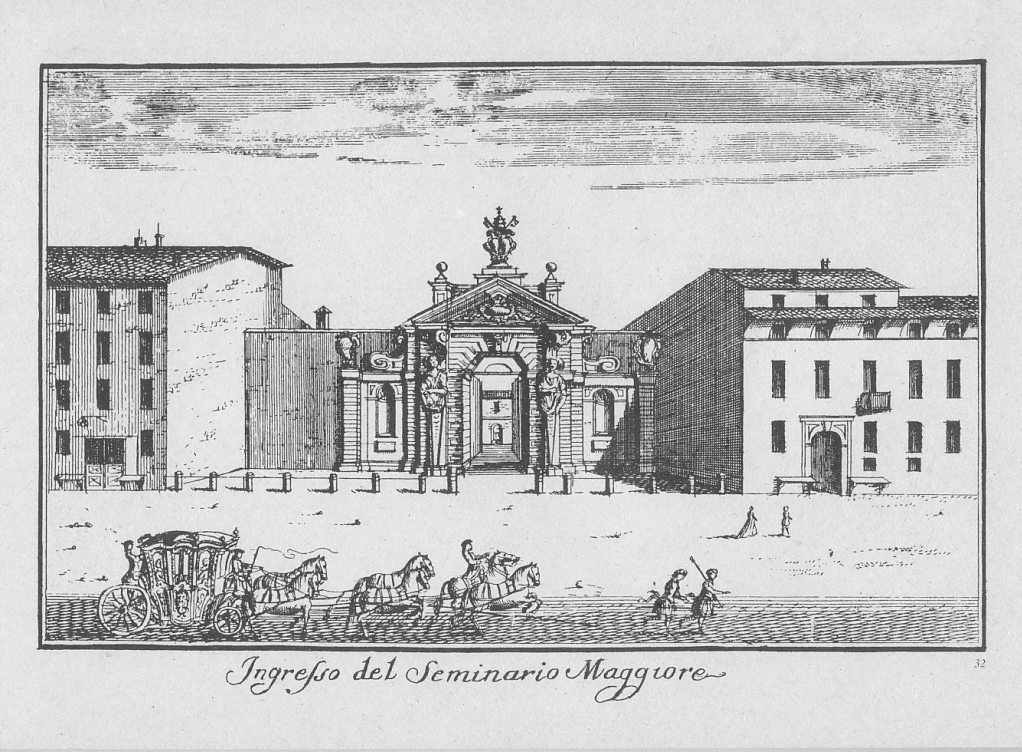 Marc'Antonio Dal Re (1697-1766), Entrance of the Main Seminar in Milan. This engraving is # 32 from a set of 88 Vedute di Milano ("Views of Milan") published by Del Re around 1745.